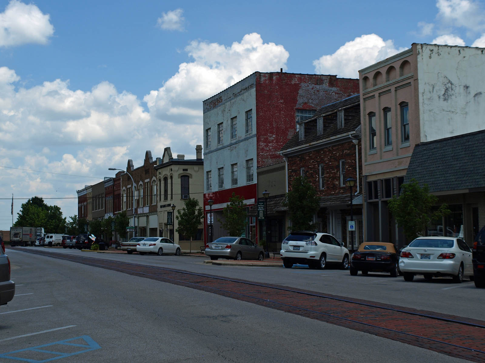 Buildings on Bank Street in Decatur, Alabama, part of the Bank Street Historic District.